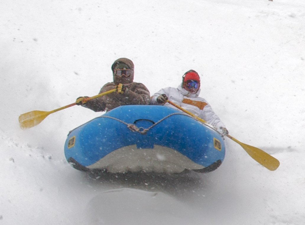 Rafting in snow on Monarch Mountain